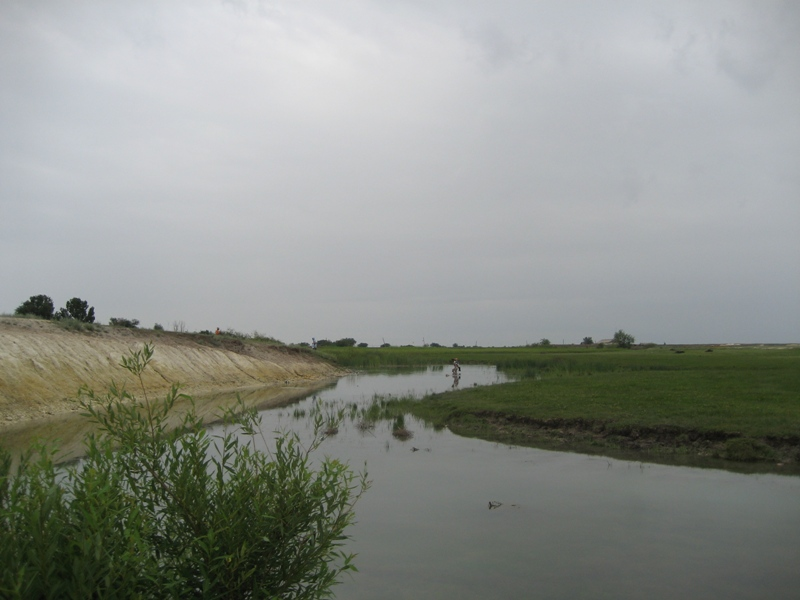 View of spring water in Aktau village of West Kazakstan oblast